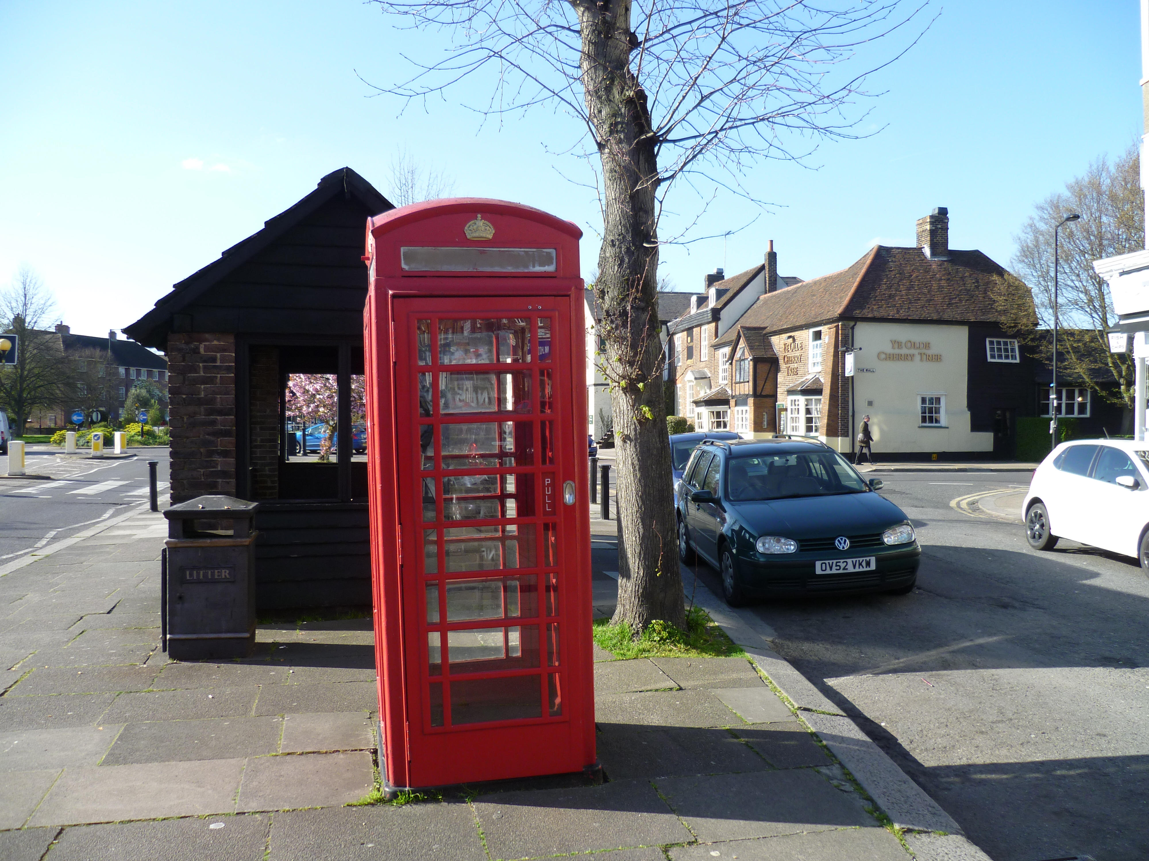 K6 telephone kiosk, Cannon Hill, Southgate